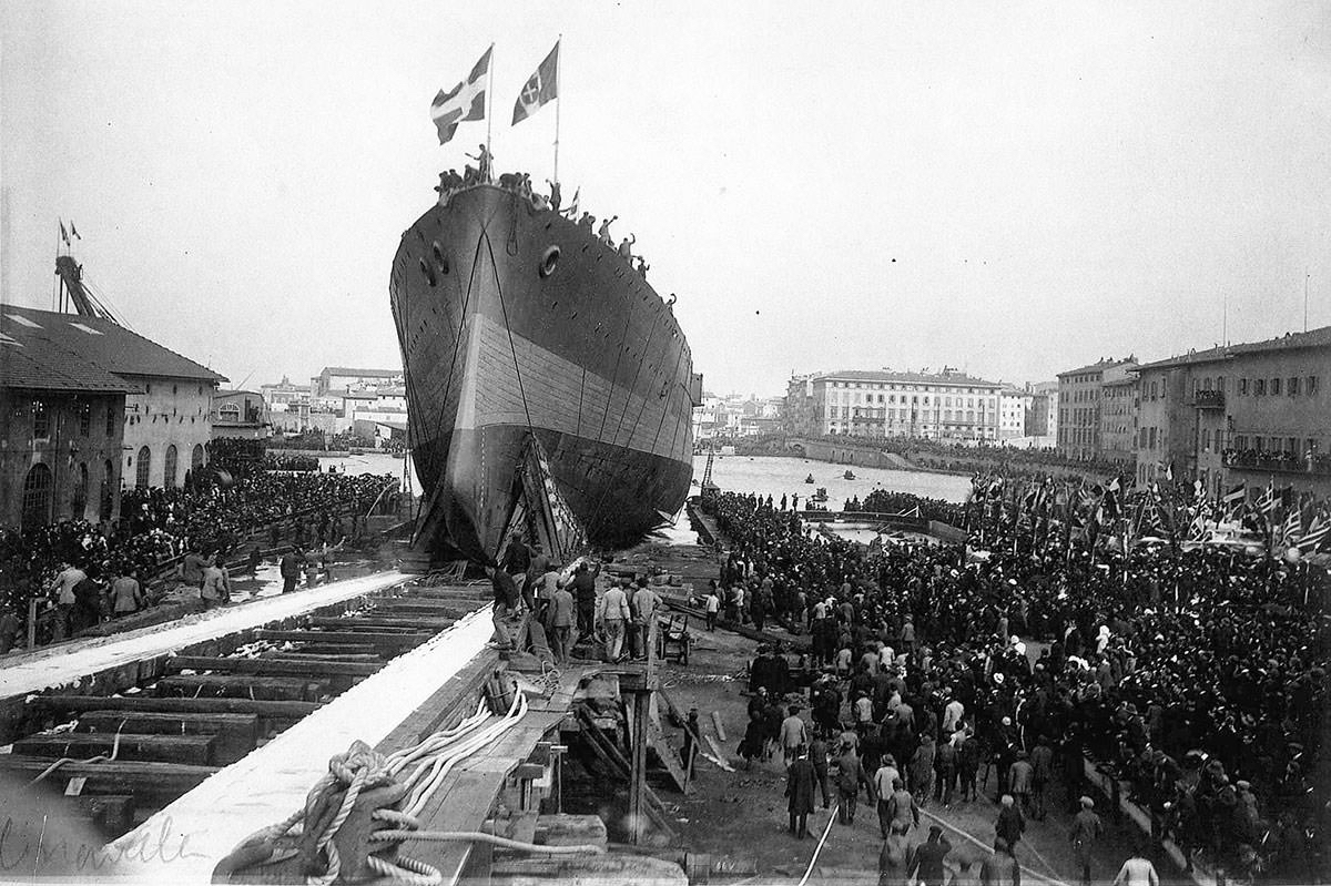 Launching Greek armoured cruiser, "Averof", Orlando Shipyard, Livorno, Italy, 12 March 1910